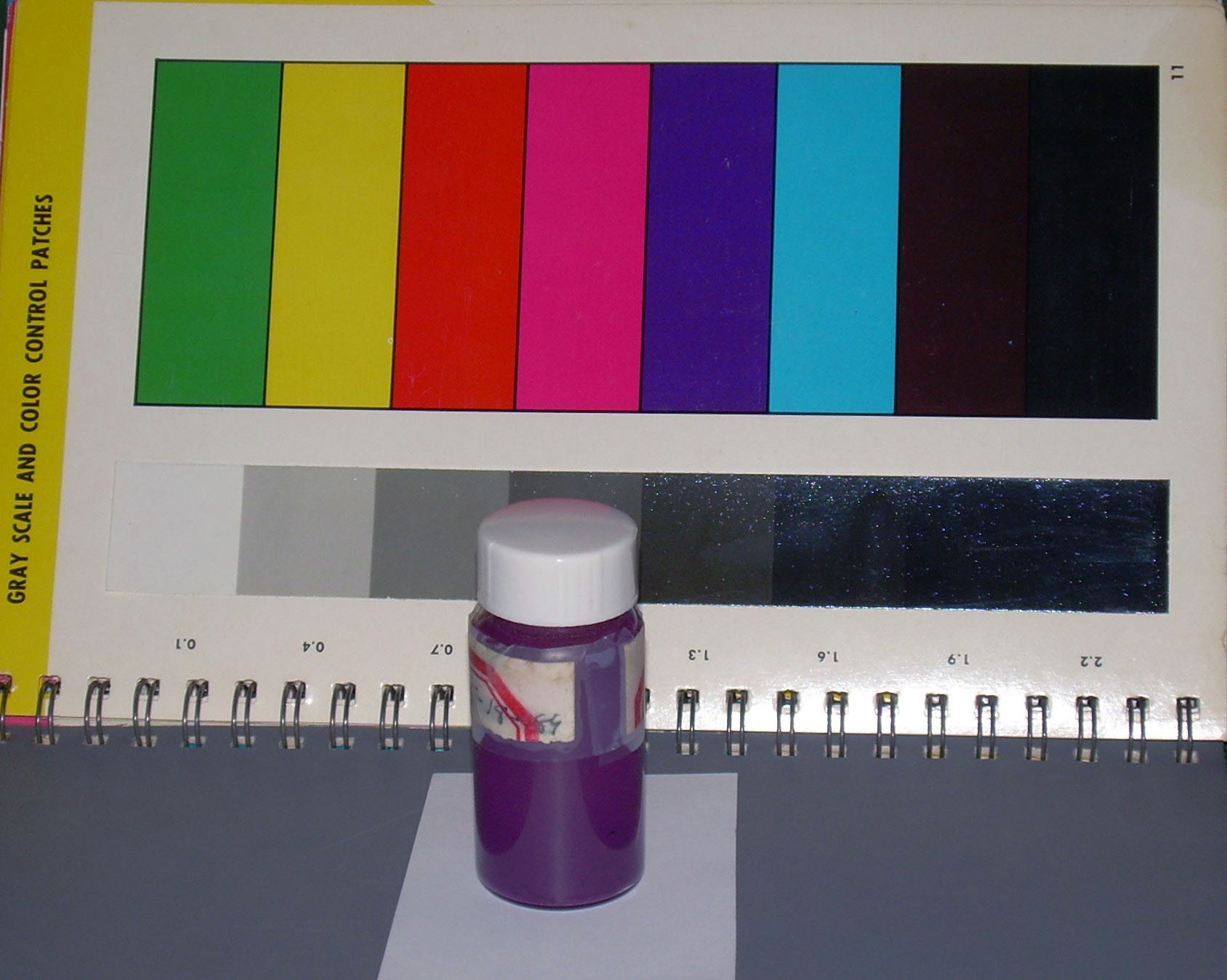 6,6'-dibromoindigo (the main component of Tyrian purple) photographed against 18% gray card and color control patches from my antique color dataguide.